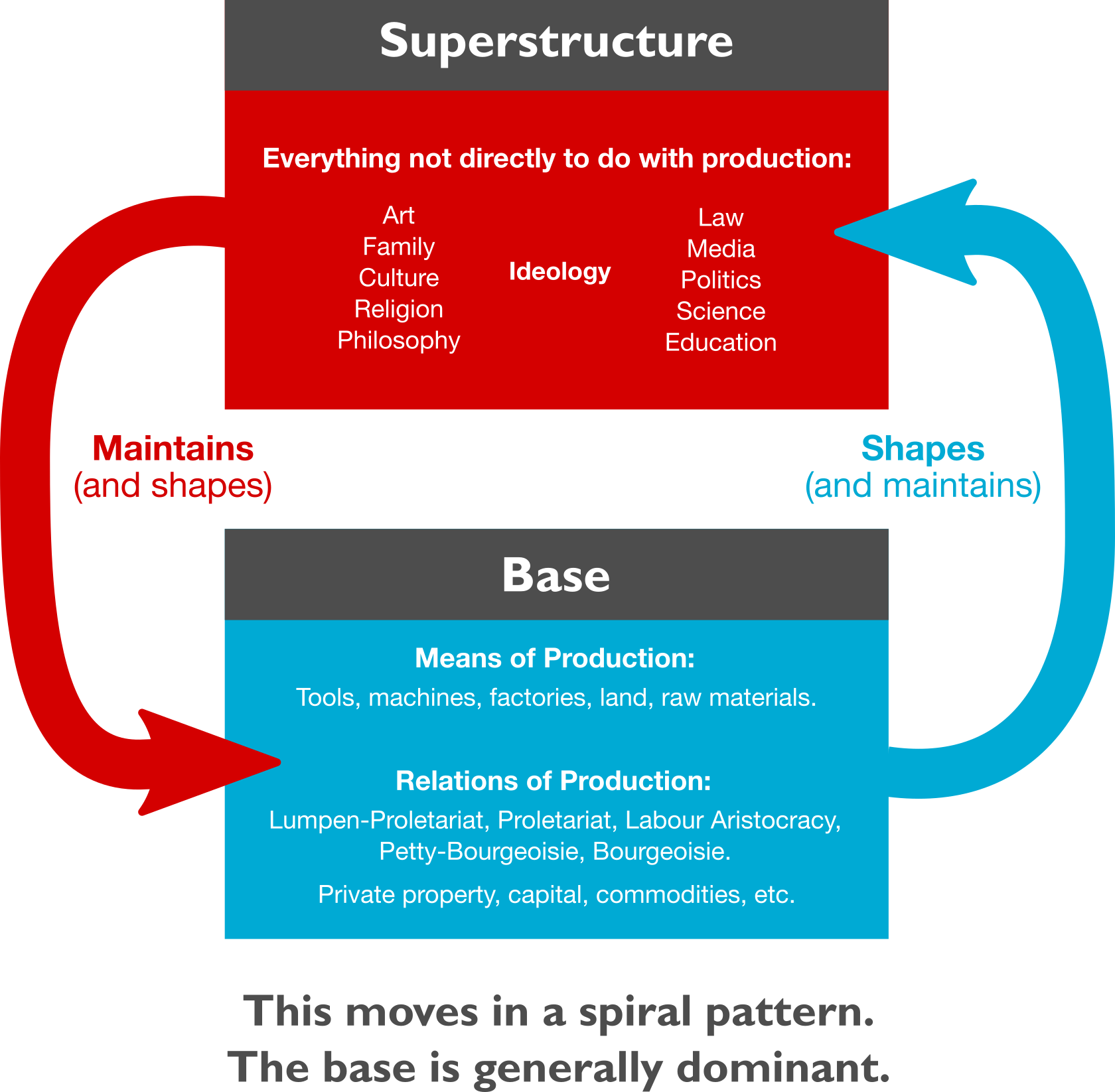 Diagram explaining the marxist Base-Superstructure dialectic. The image only mentions the means of production without taking into account the other category of productive forces, which is labor power.